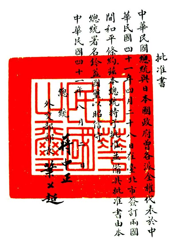 Ratification of the Peace treaty between R. O. China and Japan, signed by Chiang Kai-shek, affixing the official seal of R. O. China. Taipei, 1952